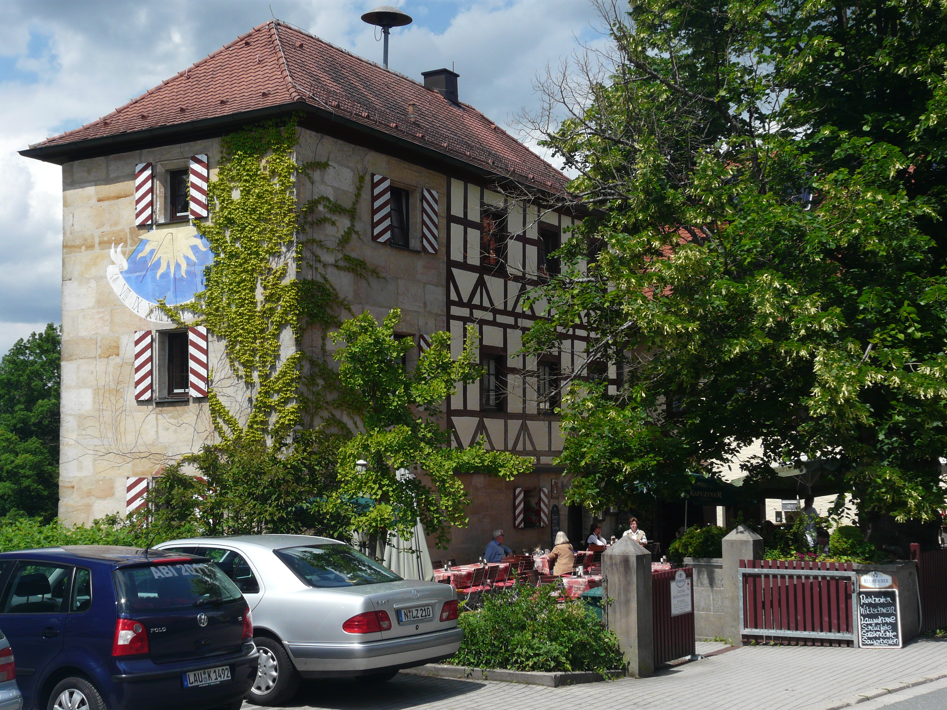 The hamlet Nuschelberg, a section of the town of Lauf an der Pegnitz